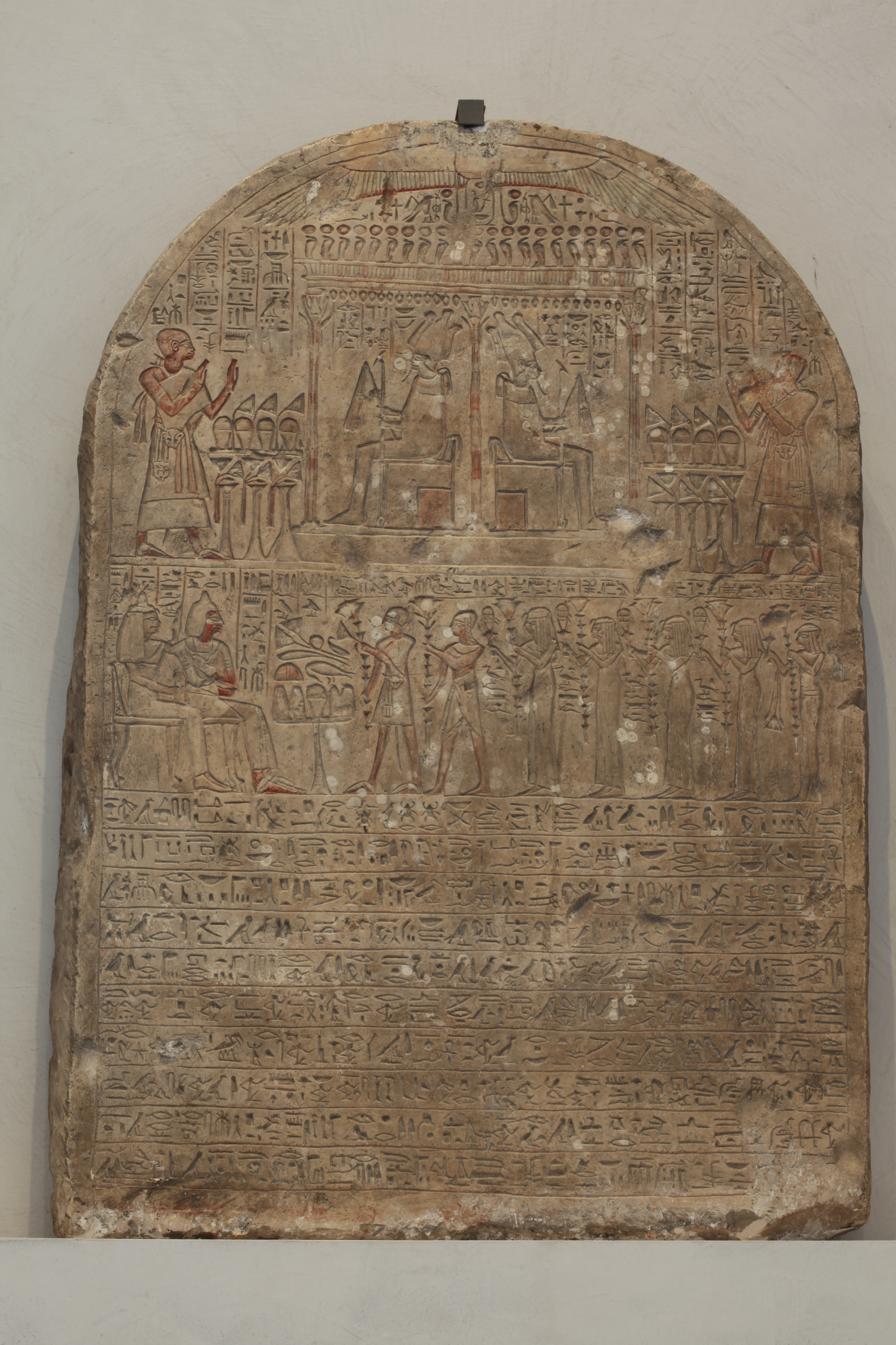 Stele dedicated to Osiris by Ptahmes, great priest of Amon, vizir of Thebes, chiefs of works of Amenophis III. Thebes.